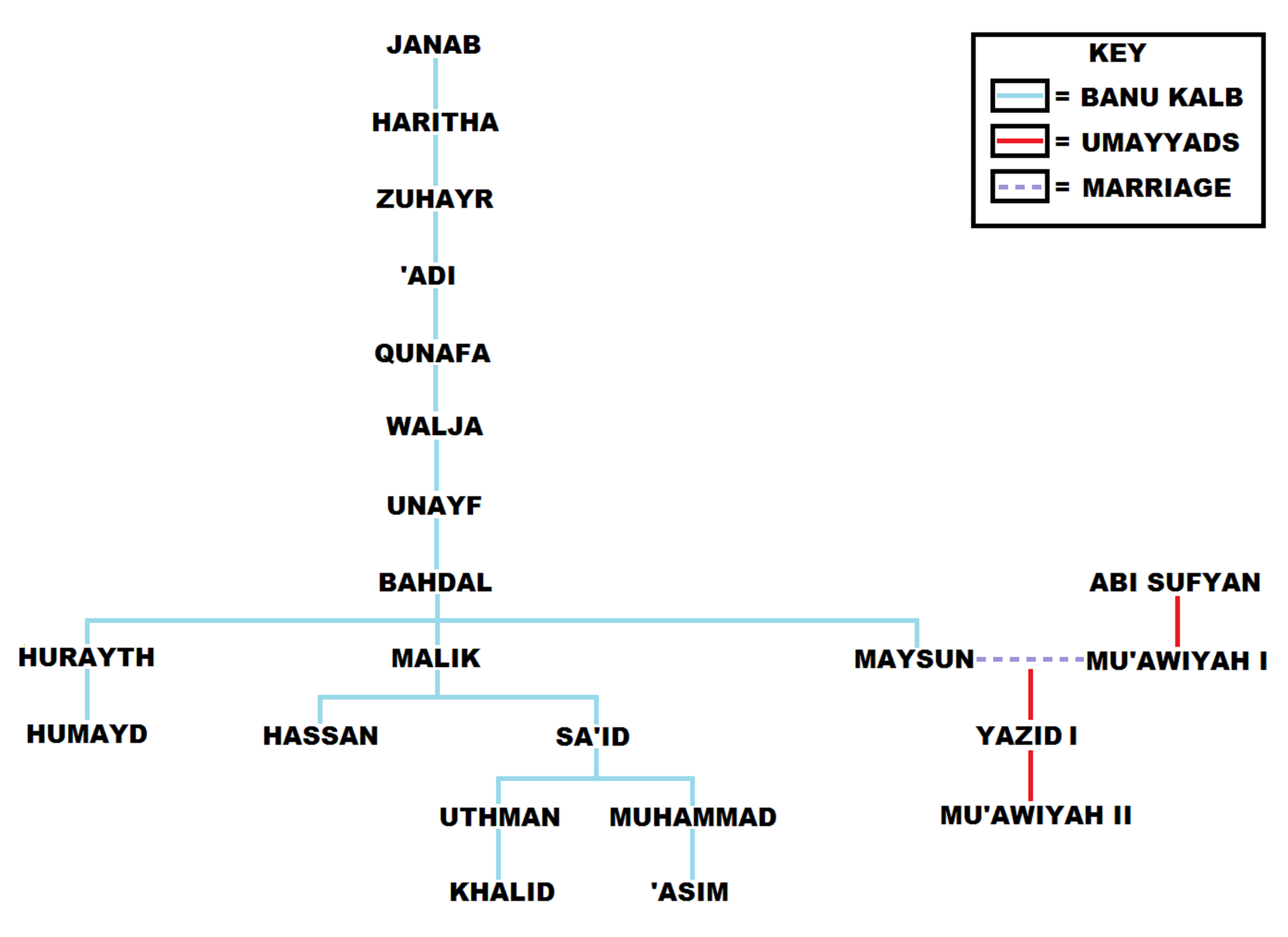 Family tree of the Banu Haritha ibn Janab, the aristocratic household of the Banu Kalb tribe of 7th/8th-century Syria. Information based on following sources: Crone, Patricia (1980). Slaves on Horses: The Evolution of the Islamic Polity. Cambridge and New York: Cambridge University Press. pp. 93-94. Al-Tabari (1987). Morony, Michael G., ed. The History of al-Tabari Vol. 18: Between Civil Wars: The Caliphate of Mu'awiyah. Albany: State University of New York Press. p. 215.